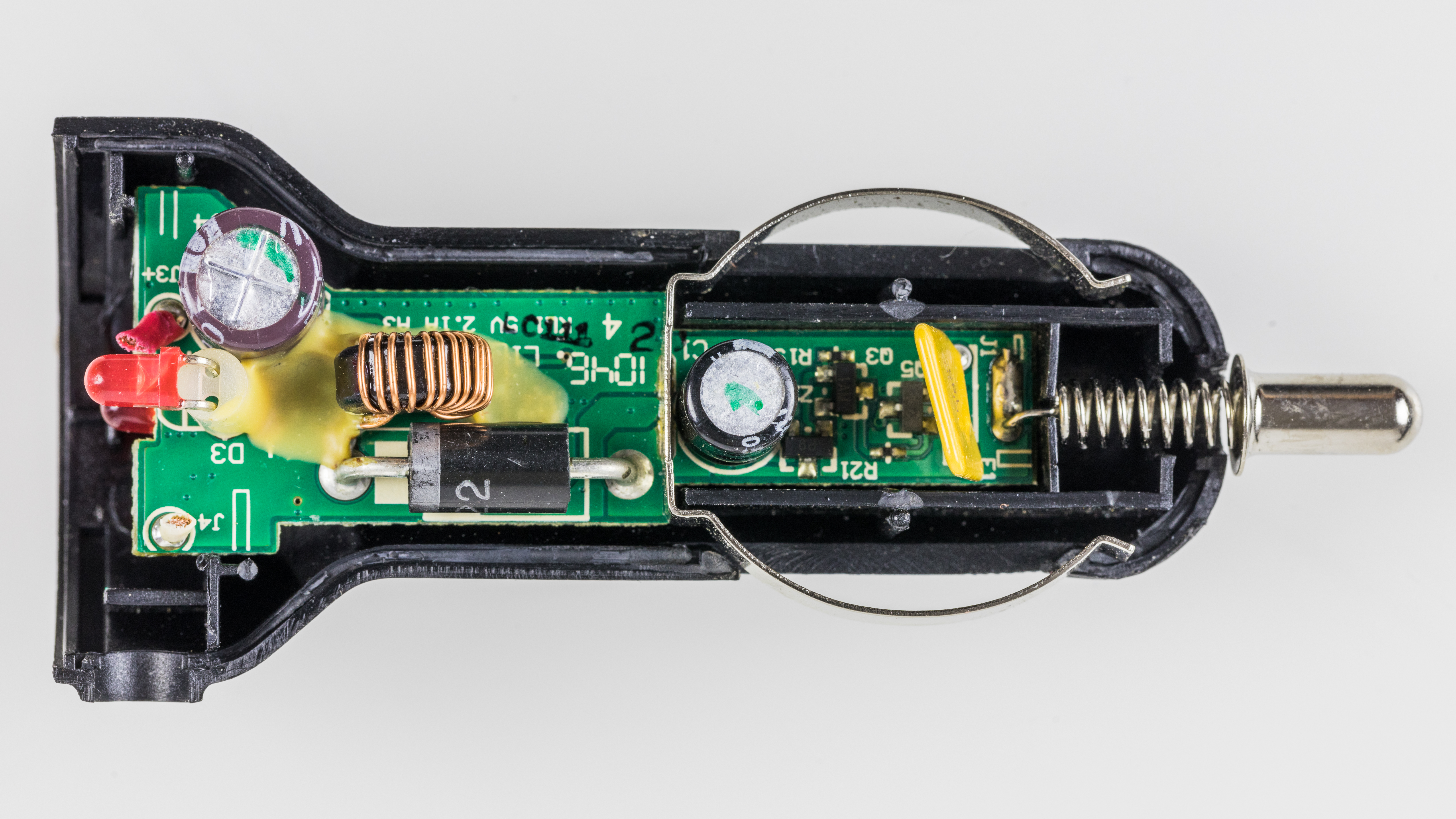 Automotive mobile phone charger - case opened